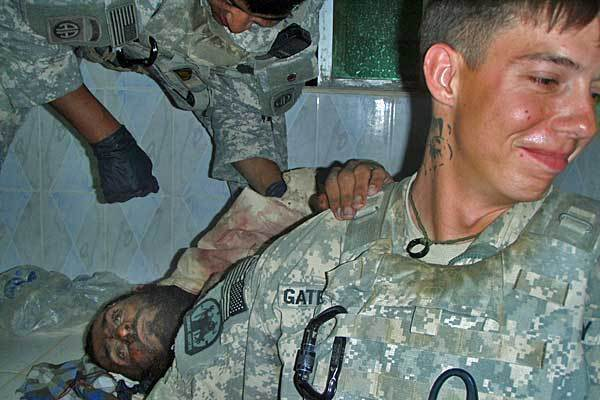 A United States Army soldier from the 82nd Airborne Division photographed with a dead insurgent's hand on his shoulder. It's one of 18 photographs given to the Los Angeles Times picturing U.S. military personnel posing with corpses.